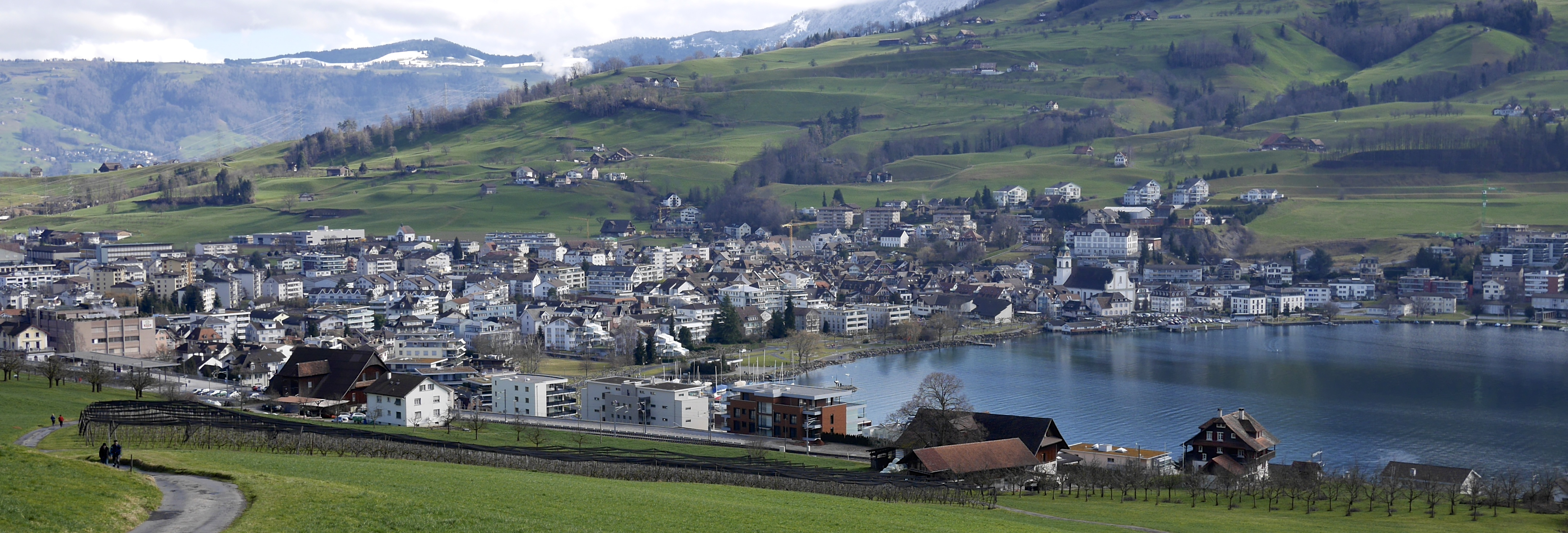 Küssnacht, Canton of Schwyz, Switzerland